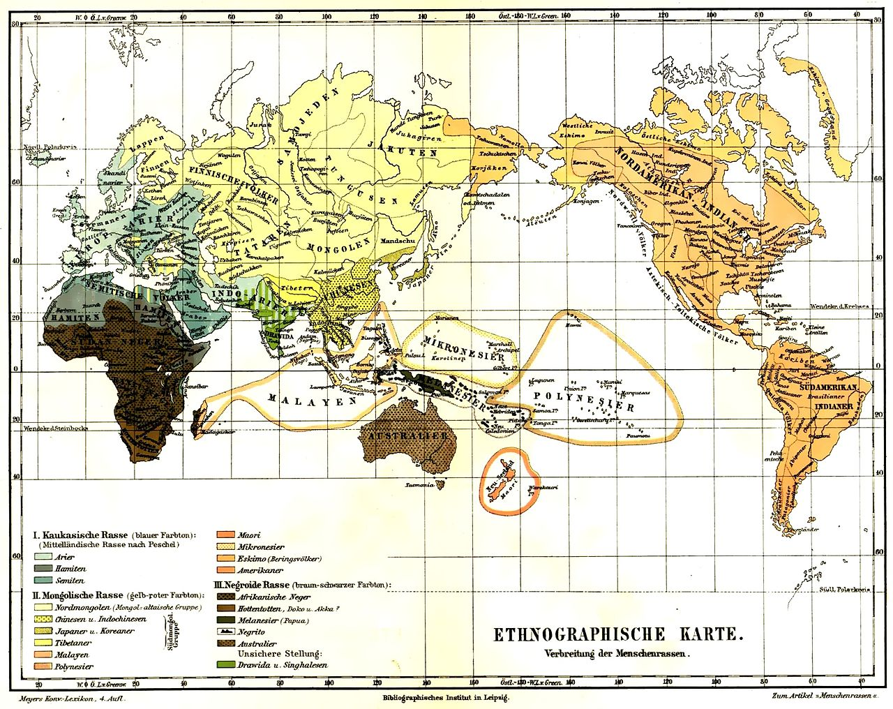 Racial map including Ural-Altaic theory.